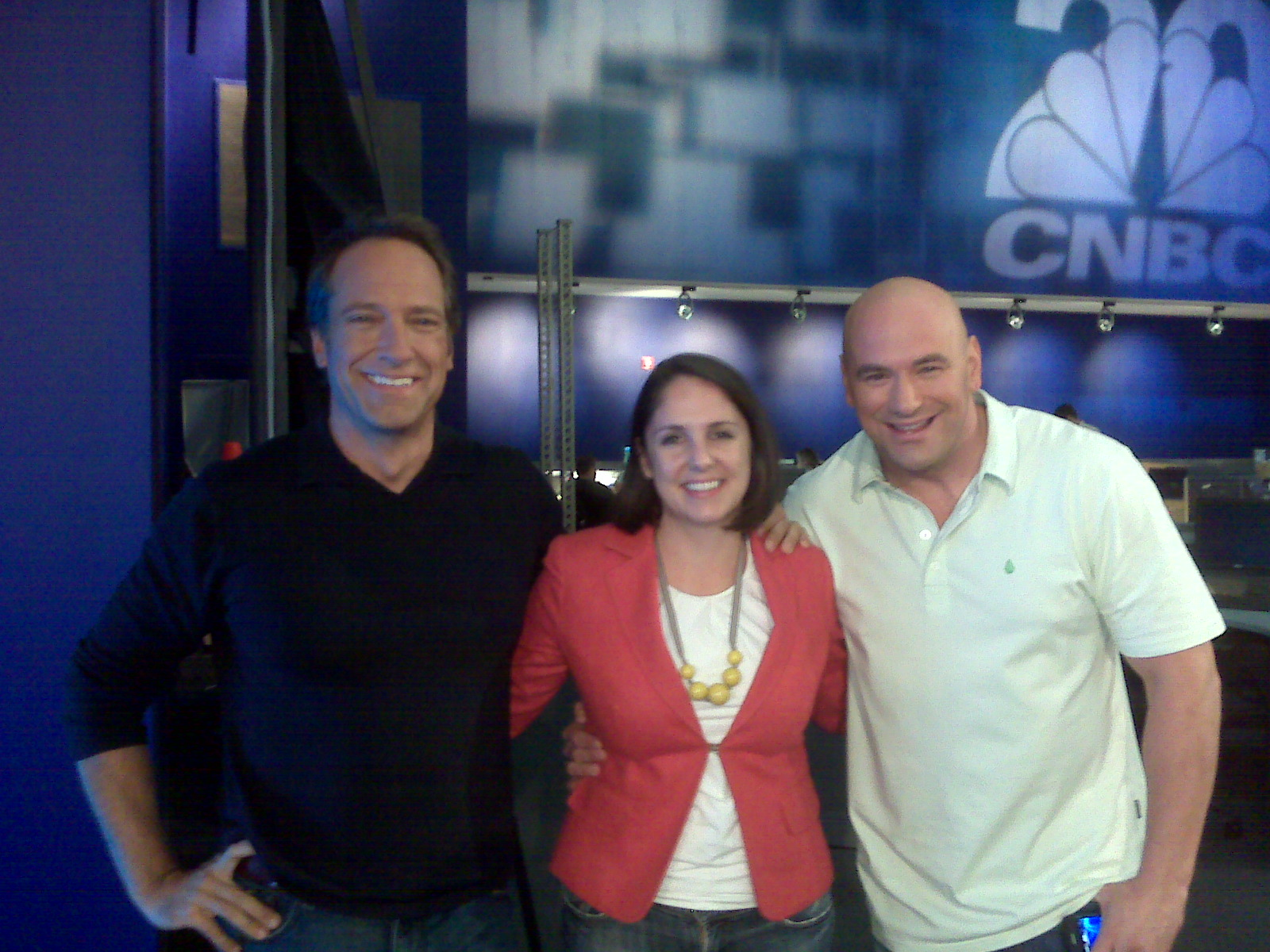 Molly with Mike Rowe and UFC CEO, Dana White.